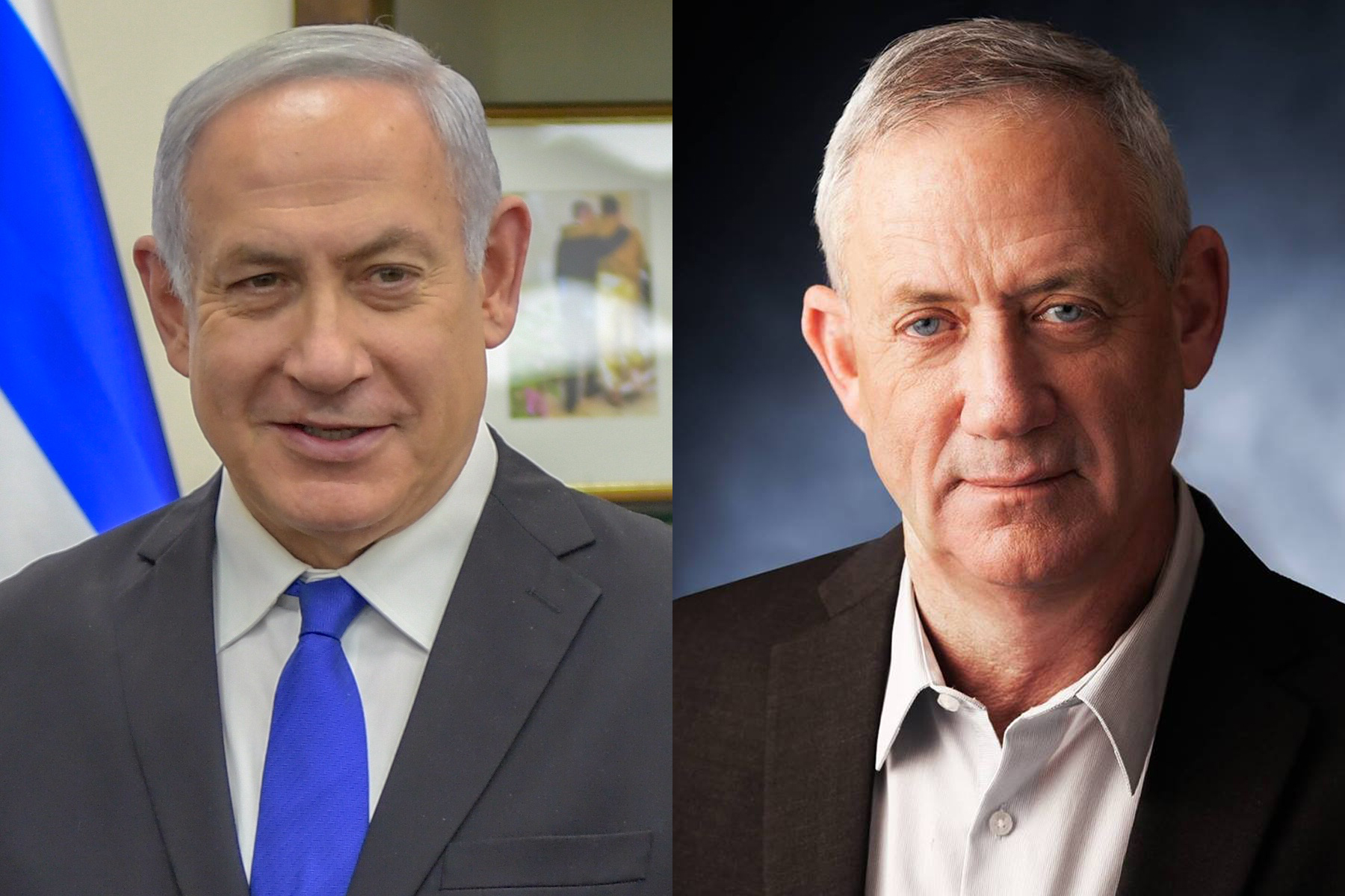 Montage of Benjamin Netanyahu and Benny Gantz.